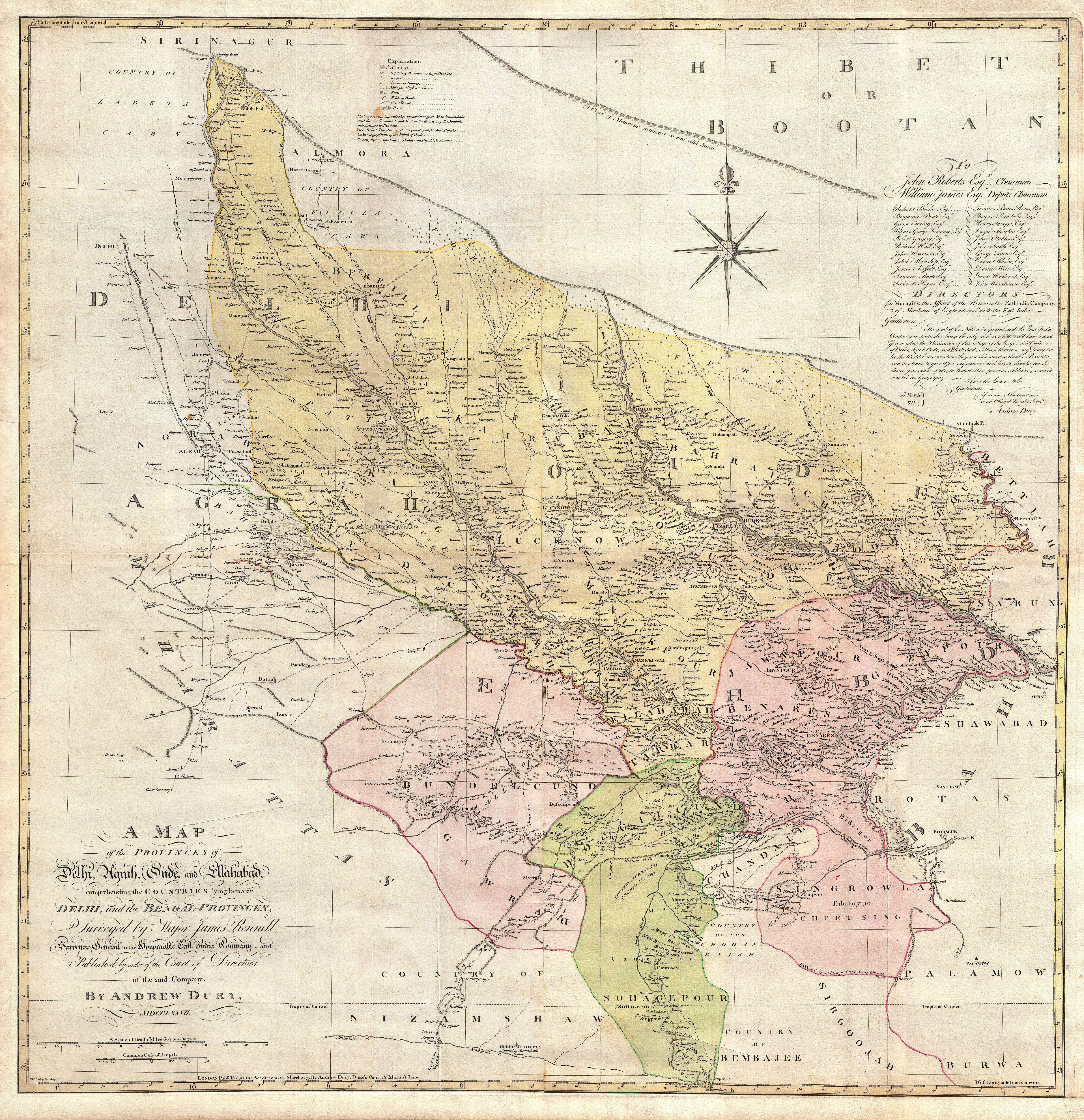 An altogether spectacular wall sized map of those parts of India near Delhi, Agra and Varanasi. Covers from Delhi in the northwest as far east along the Ganges River as Bihar and as far south as Sohagepour. Includes Varanasi (Benares), Lucknow, Gorakhpur and Faizabad among many other important Indian cities. Bounded on the north by the Himalaya Mountains and the border with Tibet and Bhutan. One of the first accurate maps of the interior of India. Laid out from primary surveys done by James Rennell, the first modern cartographer to map the interior of India. Notes cities, markets, battlefields, fortresses, roads, rivers, offers political commentary, and features some geographical references. Elaborate title in the lower left quadrant. Upper right quadrant features a dedication and letter of thanks written by Andrew Dury, the publisher, to the board of the East India Company. This is the first edition of this rare map – 1777 – as published by Dury. Later editions were published by Sayer and Bennet and by Laurie and Whittle.